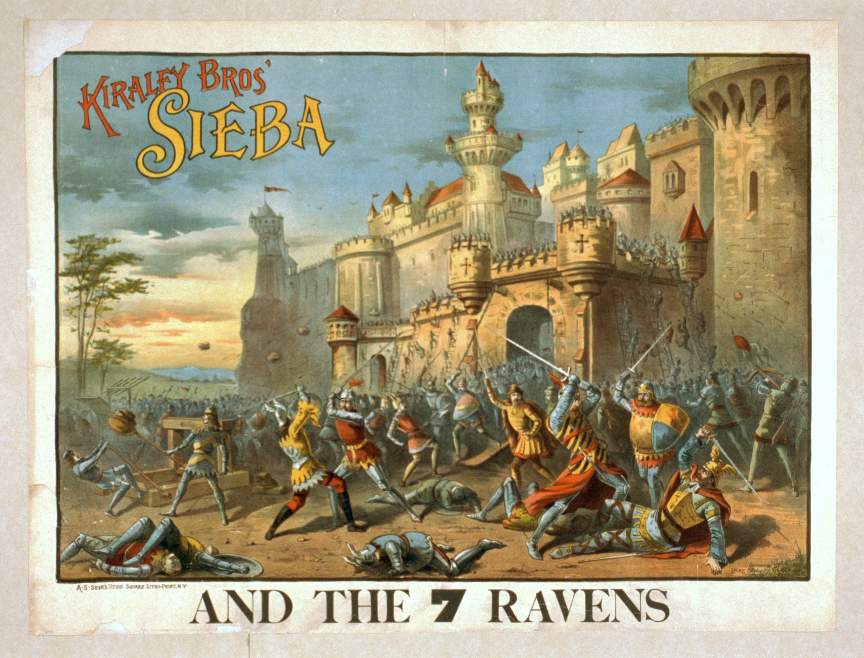 Title: Kiralfy Bros' Sieba and the 7 ravens Abstract/medium: 1 print : color lithograph ; sheet 76 x 100 cm. (poster format)